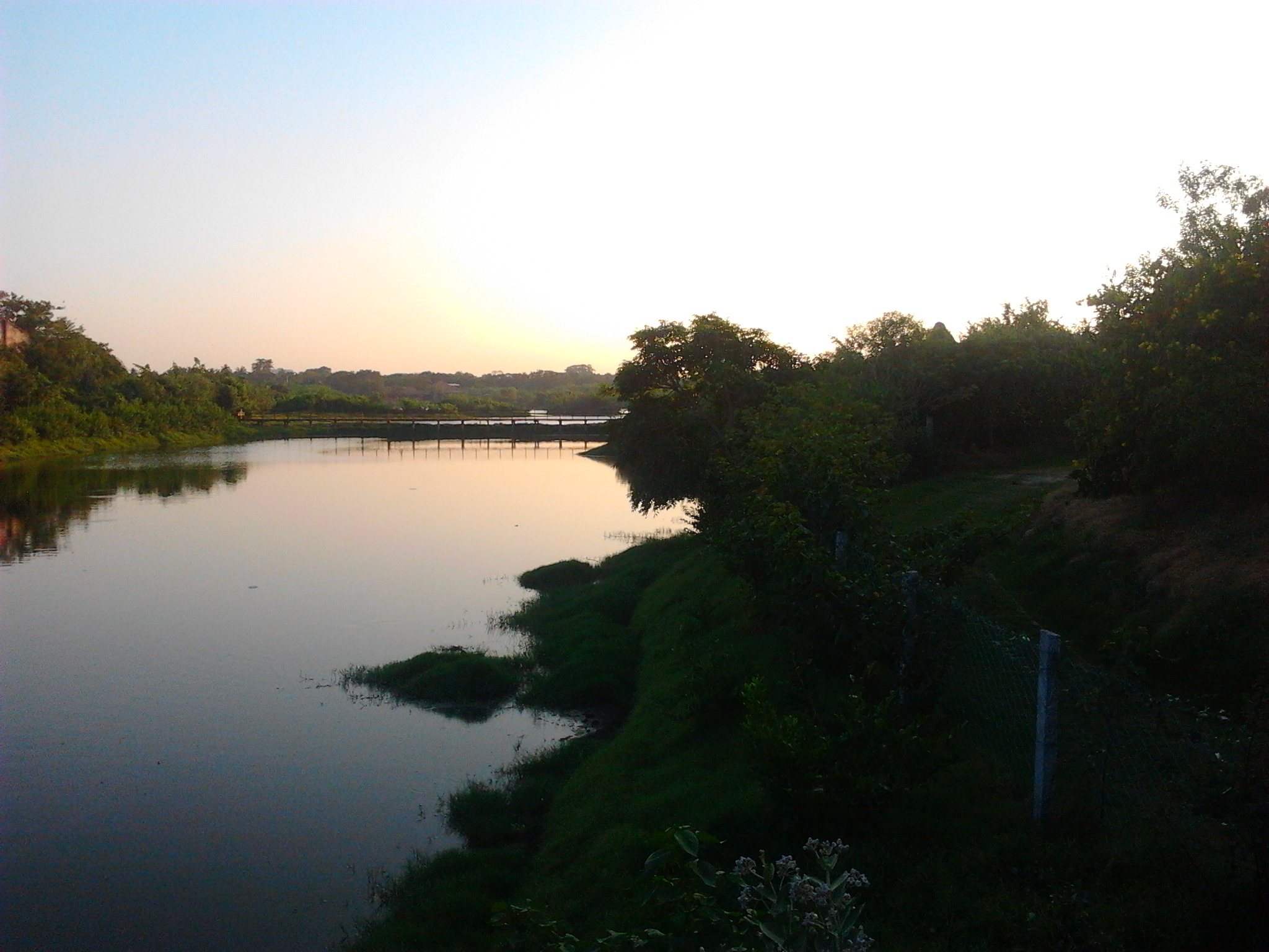 Photoed using Samsung Wave 525.